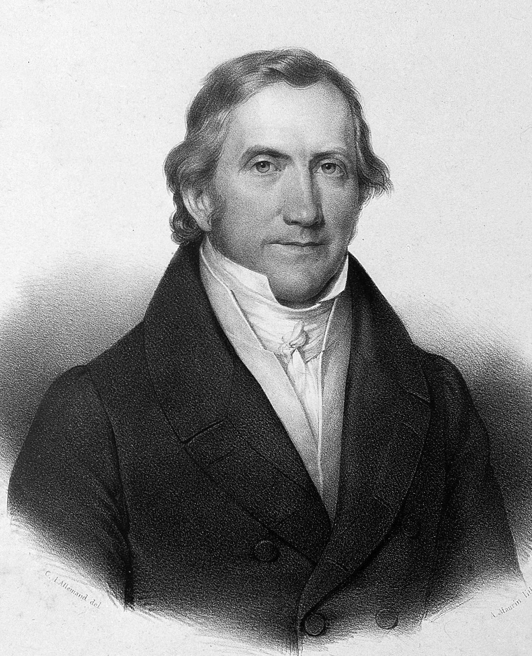 Franz Naegele German gynaecologist